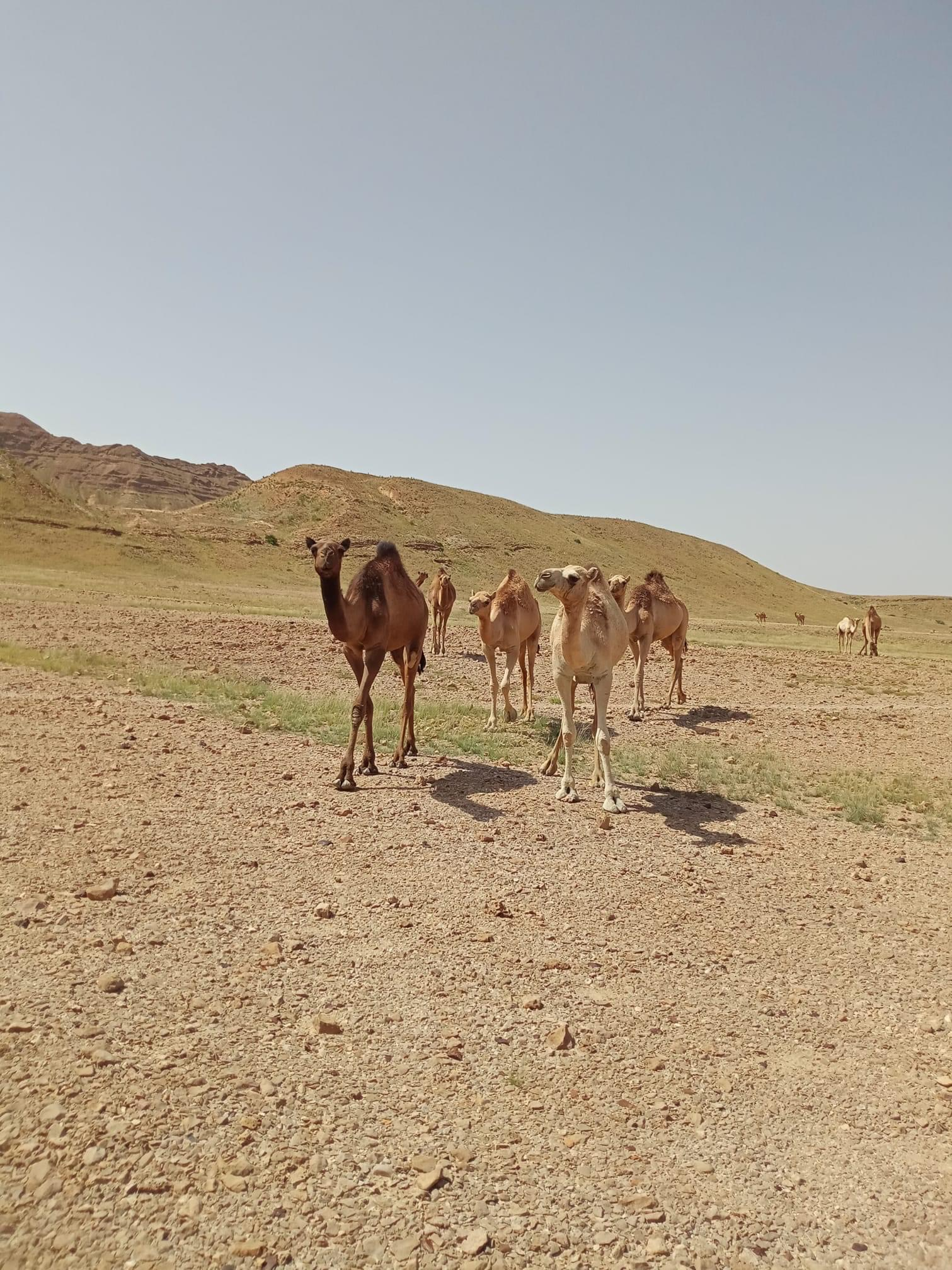 The Camels